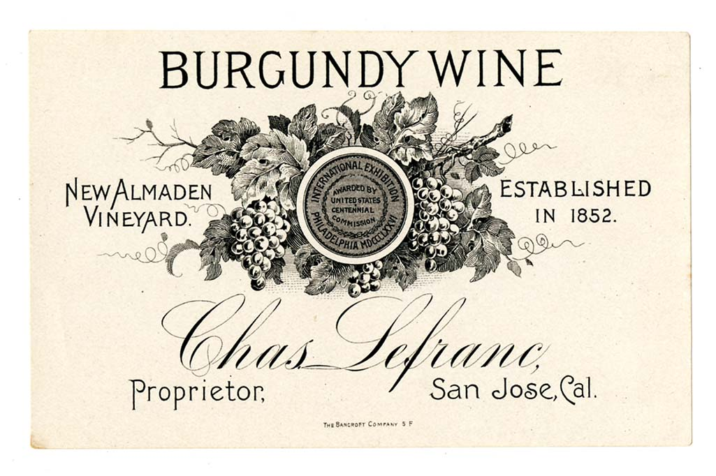 Repository: California Historical Society Collection: California wine label and ephemera collection Date: 1876 award General Note: Established in 1852. Chas. Lefranc, proprietor. Call Number: Kemble Spec Col 07 Digital Object ID: Kemble Spec Col 07_023.jpg Preferred Citation: Wine label, New Almaden Vineyard, Burgundy Wine, California wine label and ephemera collection, Kemble Spec Col 07, courtesy, California Historical Society, Kemble Spec Col 07_023.jpg.